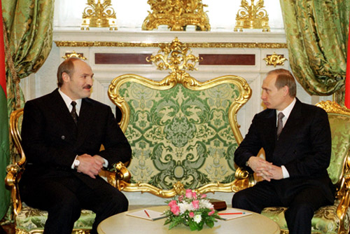 President Putin with President of Belarus Aleksandr Lukashenko